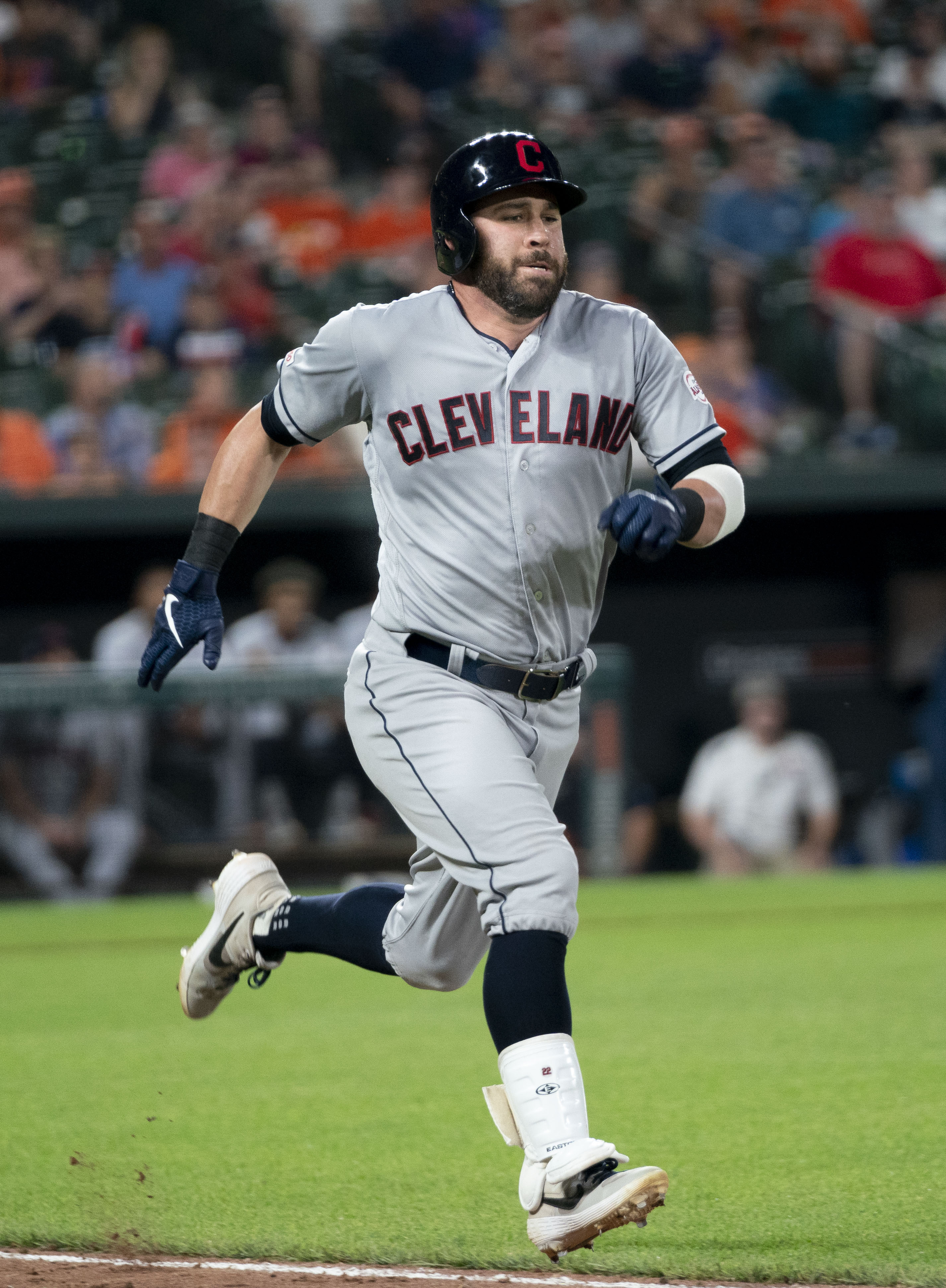 Indians at Orioles 6/28/19